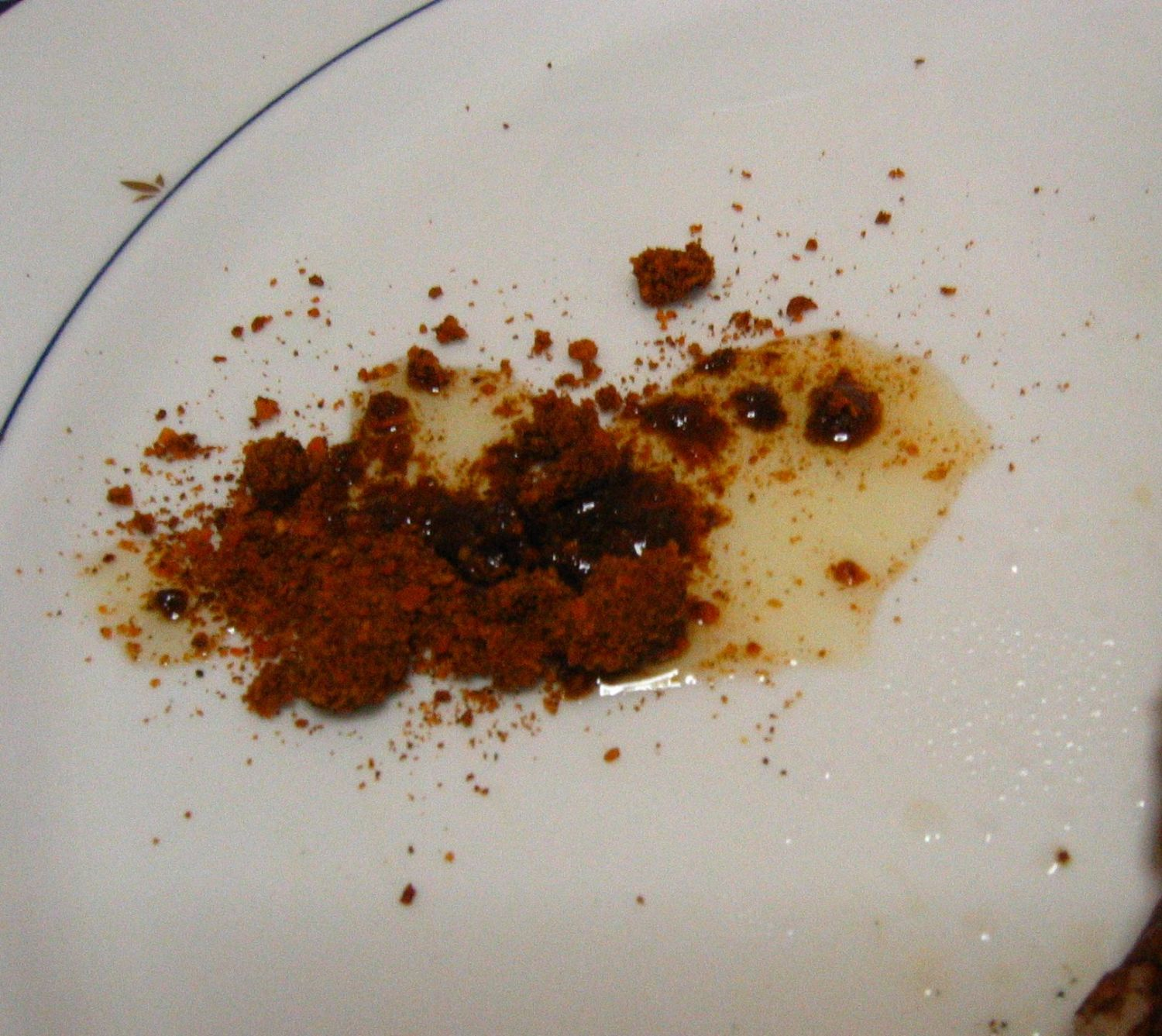 Liquid ghi (clarified butter) and "gunpowder" (Tamil MiLagai podi; a chili mix) on a plate.